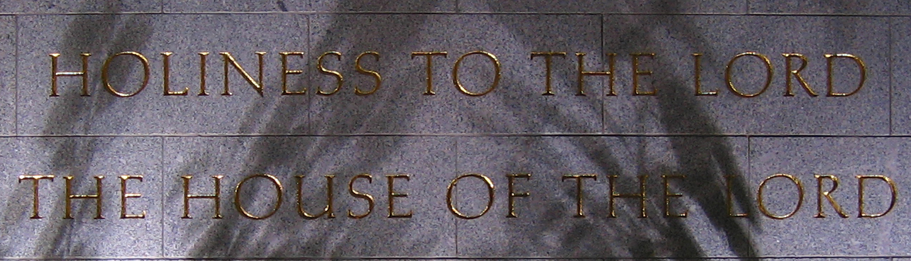 Salt Lake City Temple entrance (entrance into the Temple Annex located to the North of the Temple proper) in Salt Lake City, Utah, The Church of Jesus Christ of Latter-day Saints by Ricardo630 Ricardo630 06:50, 21 April 2006 (UTC)